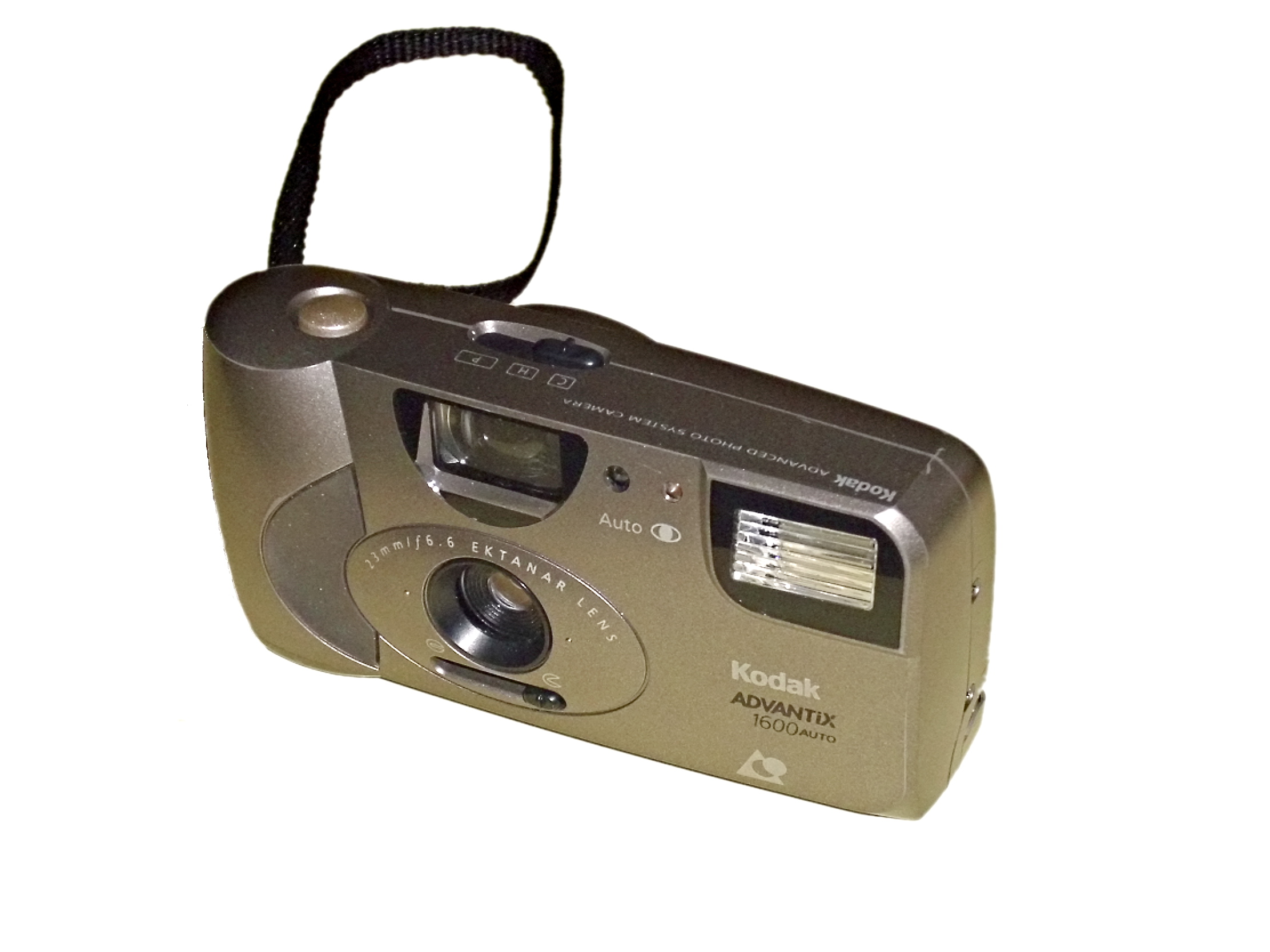 Kodak Advantix 1600 auto Advanced Photo System camera. See Kodak web site for camera specifications].